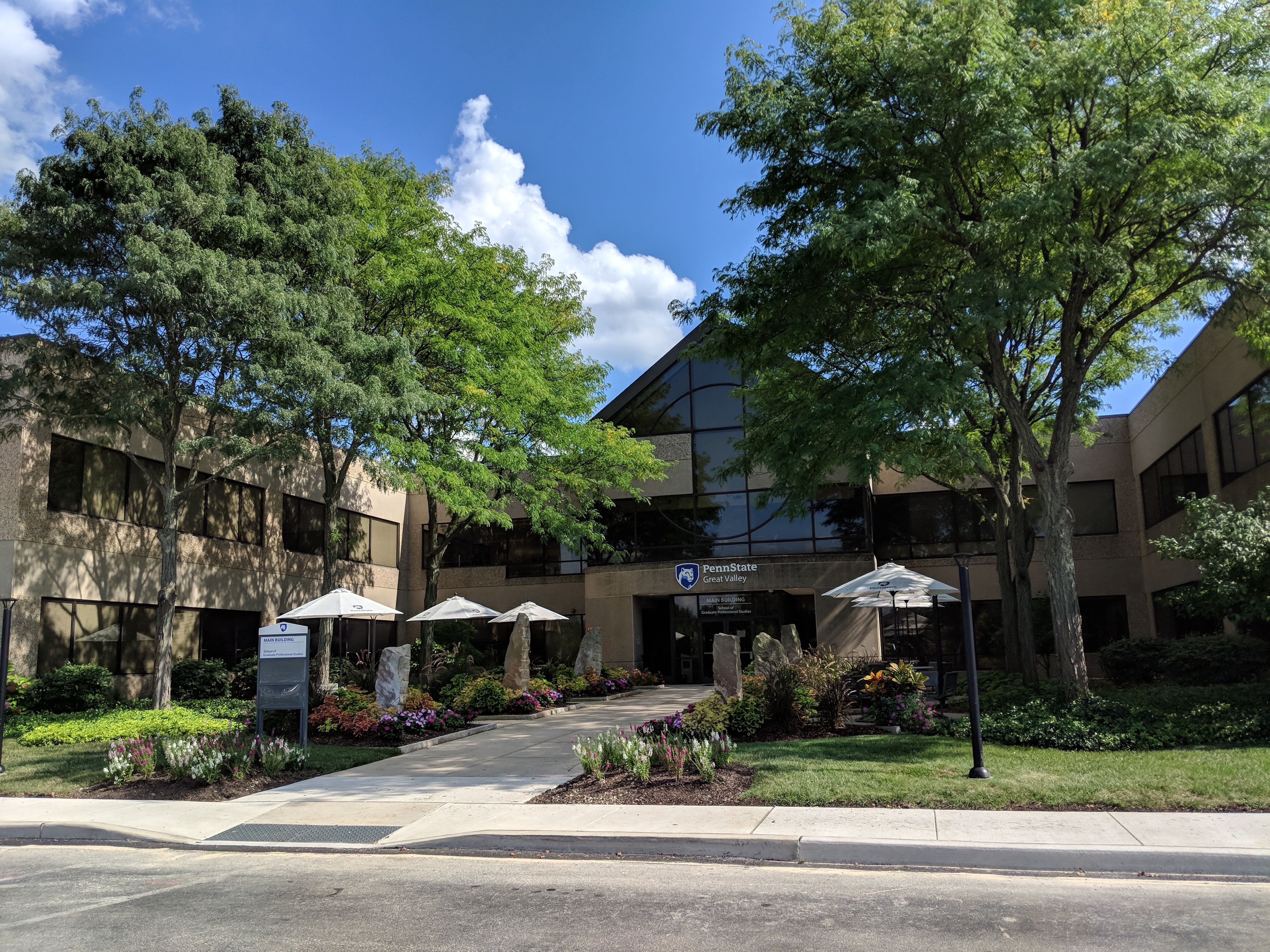 This is a landscape of the Main Building on the campus of Penn State Great Valley in Malvern, Pennsylvania.